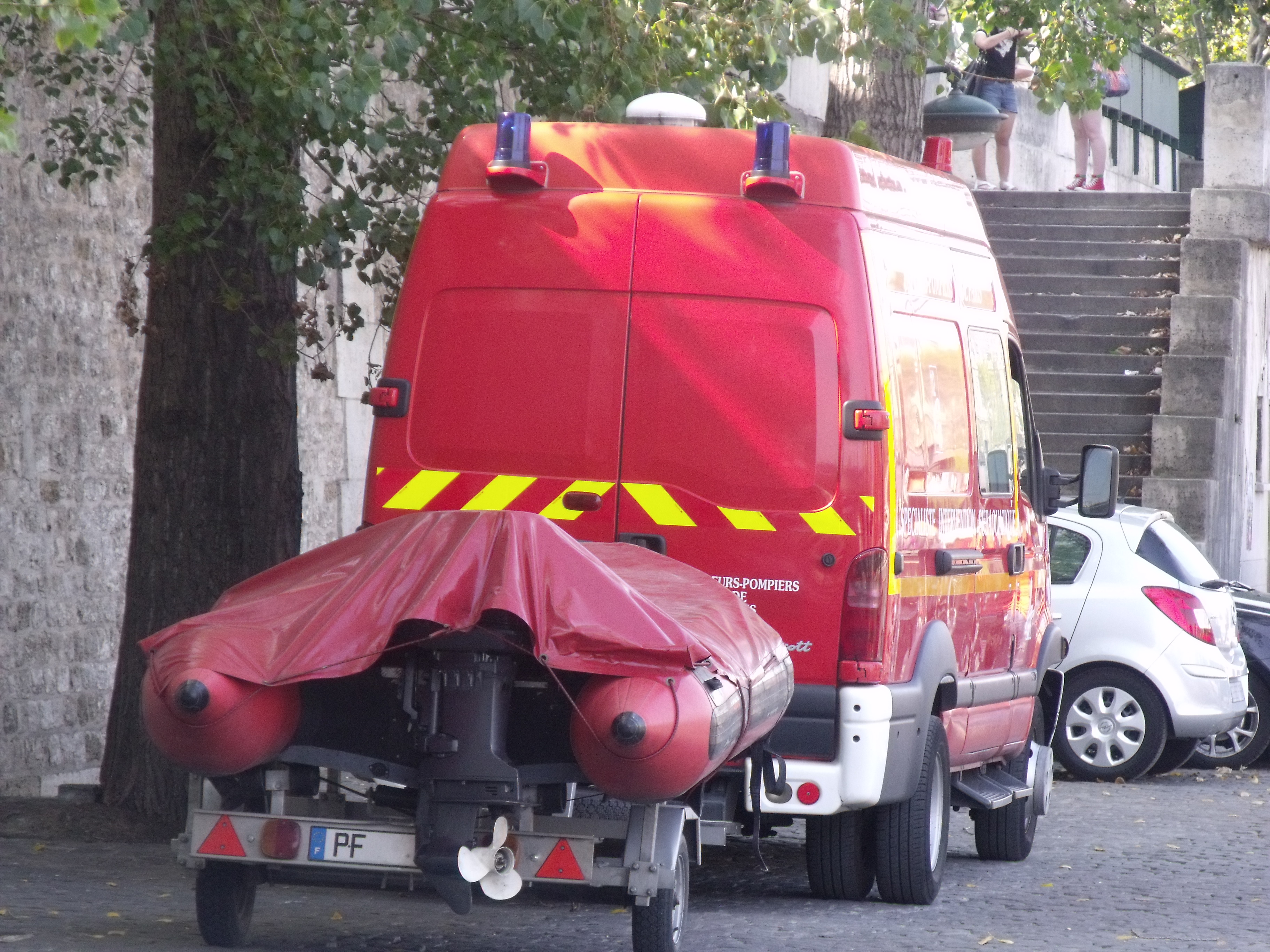 Seen here in Paris "Quai de Conti" in september 2012 this light truck tow a Sillinger rescue boat for intervention on the river Seine by fire department divers.